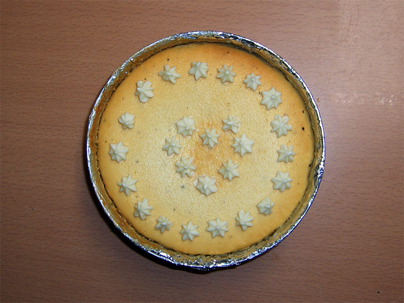 Japanese white chocolate cheese cake, topped with white chocolate stars. Made for my girlfriend for "White Day" 2006.